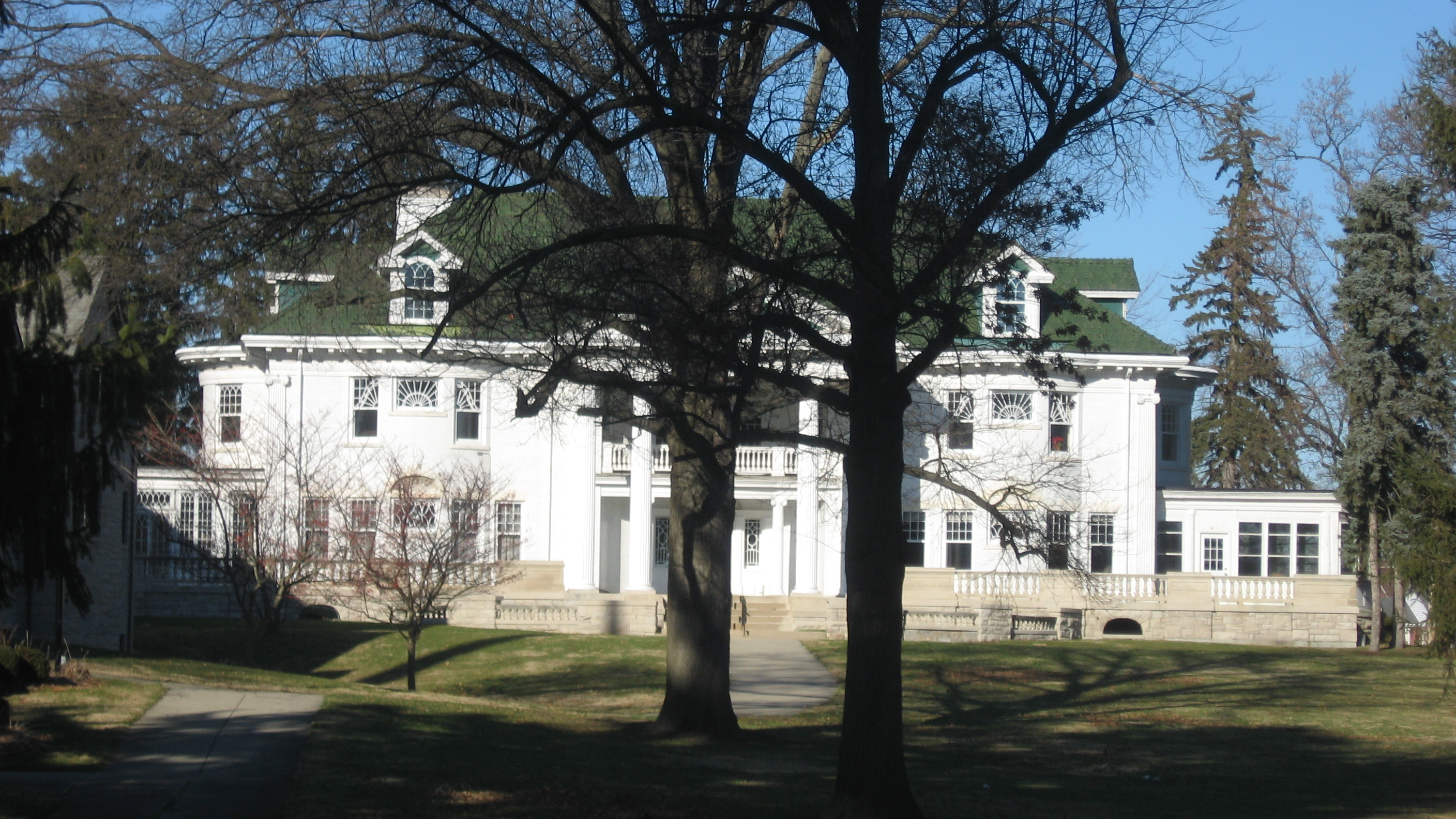 Front of the Alva Kitselman House, located at 1400 W. University Avenue in Muncie, Indiana, United States. Built in 1915, it is listed on the National Register of Historic Places.